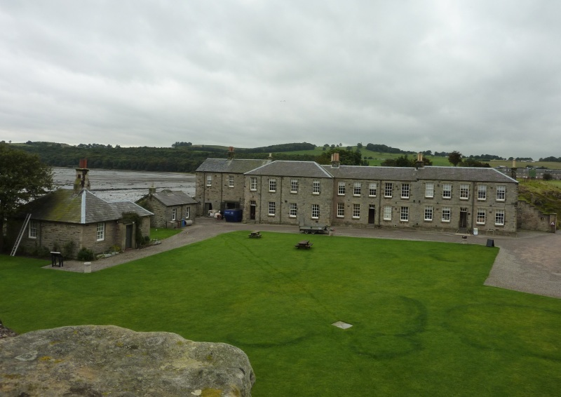 Blackness Castle, Falkirk, Scotland. Barracks.